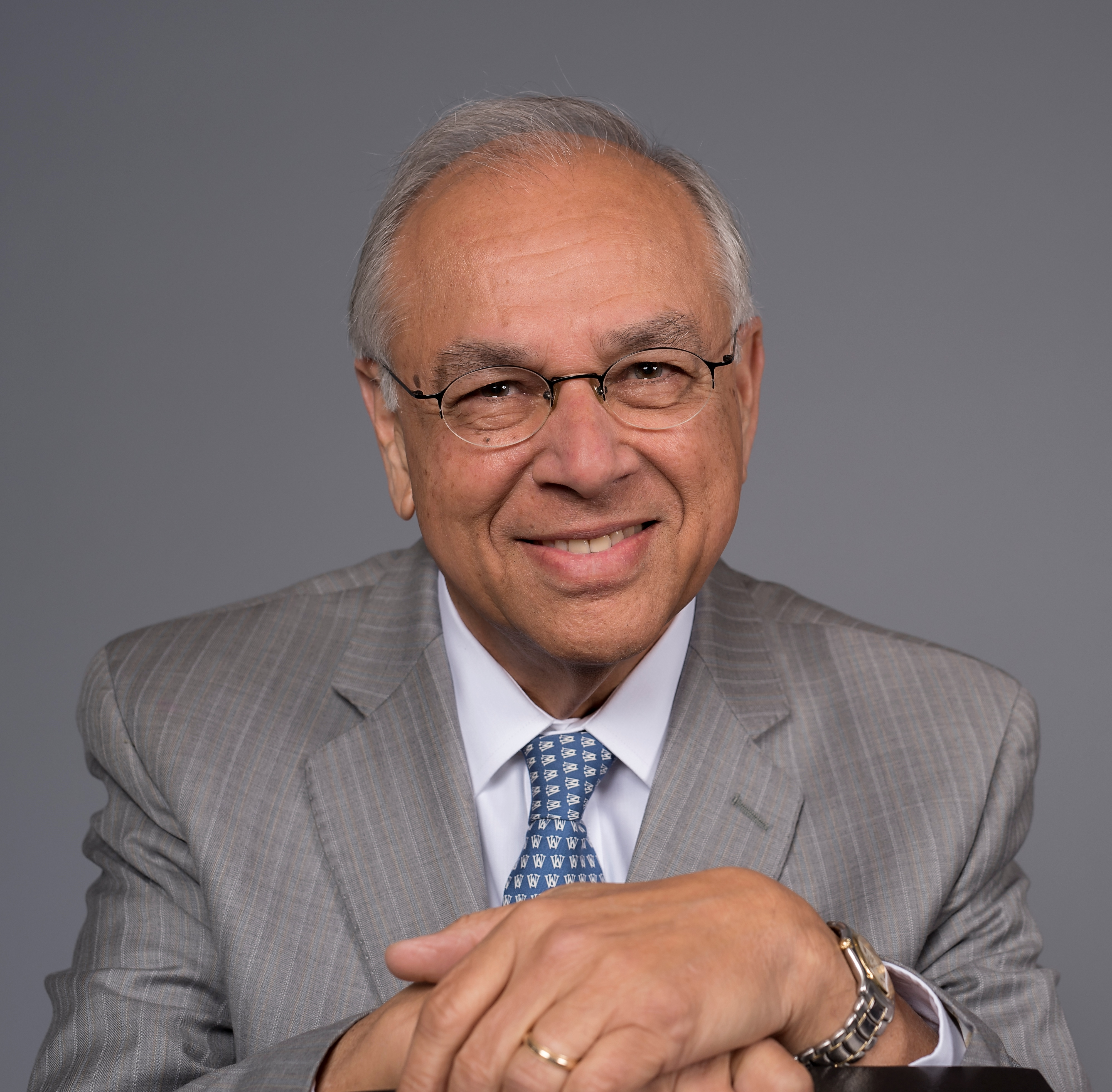 Bio Picture